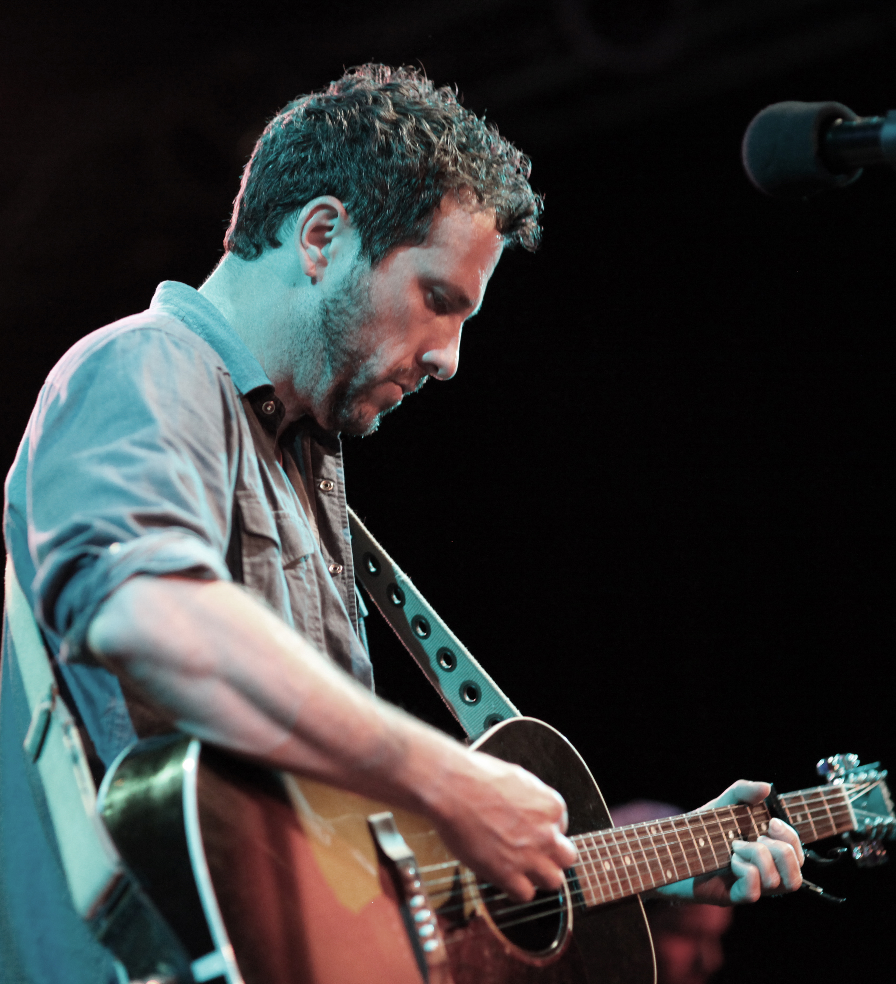 Will Hoge at Highline Ballroom, August 21, 2014.